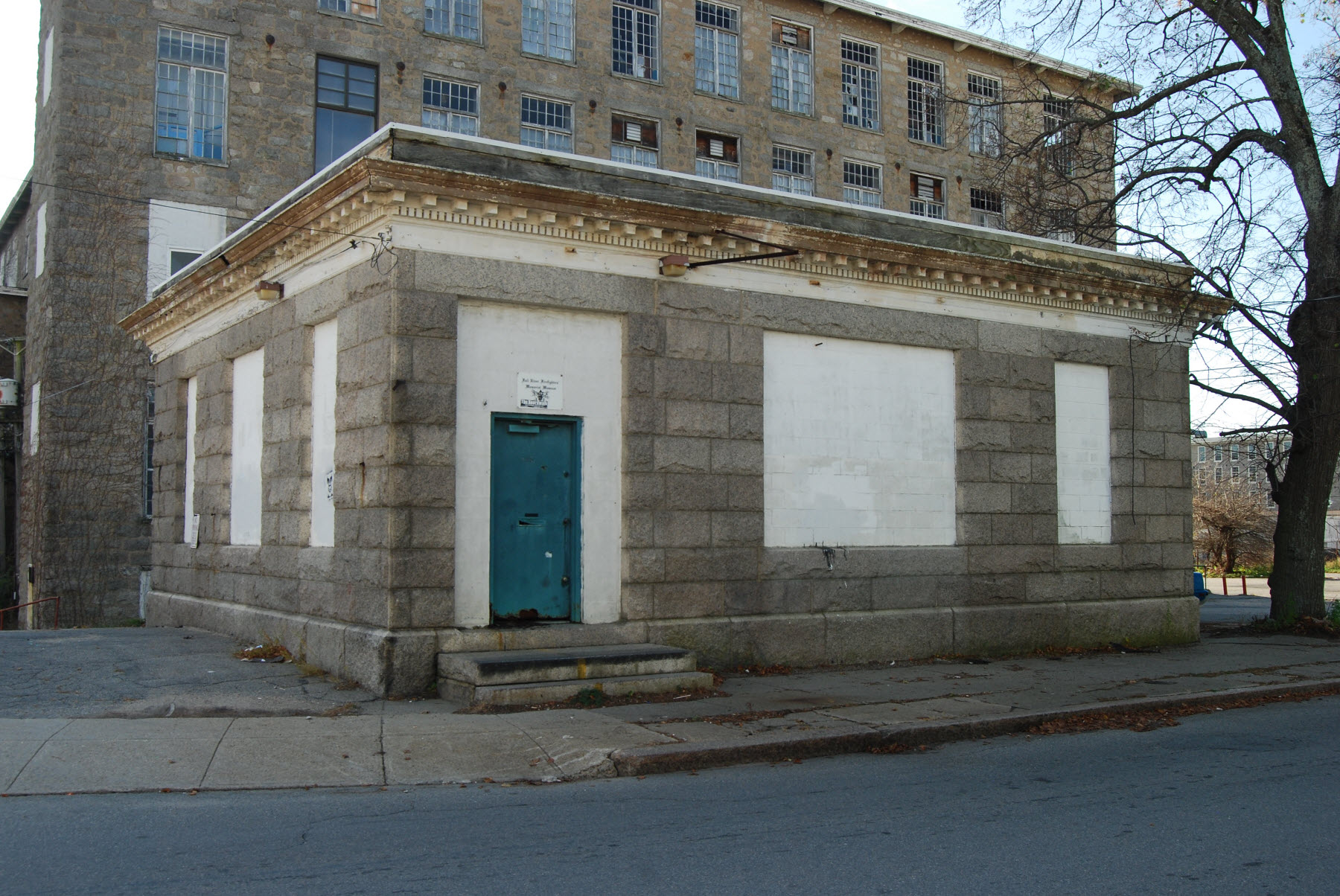 former Office, Flint Mills, Alden Street, Fall River, Massachusetts